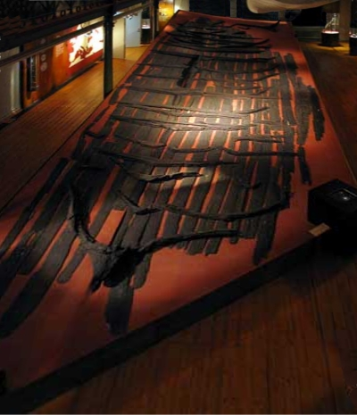 Äskekärr ship at Gothenburg City Museum